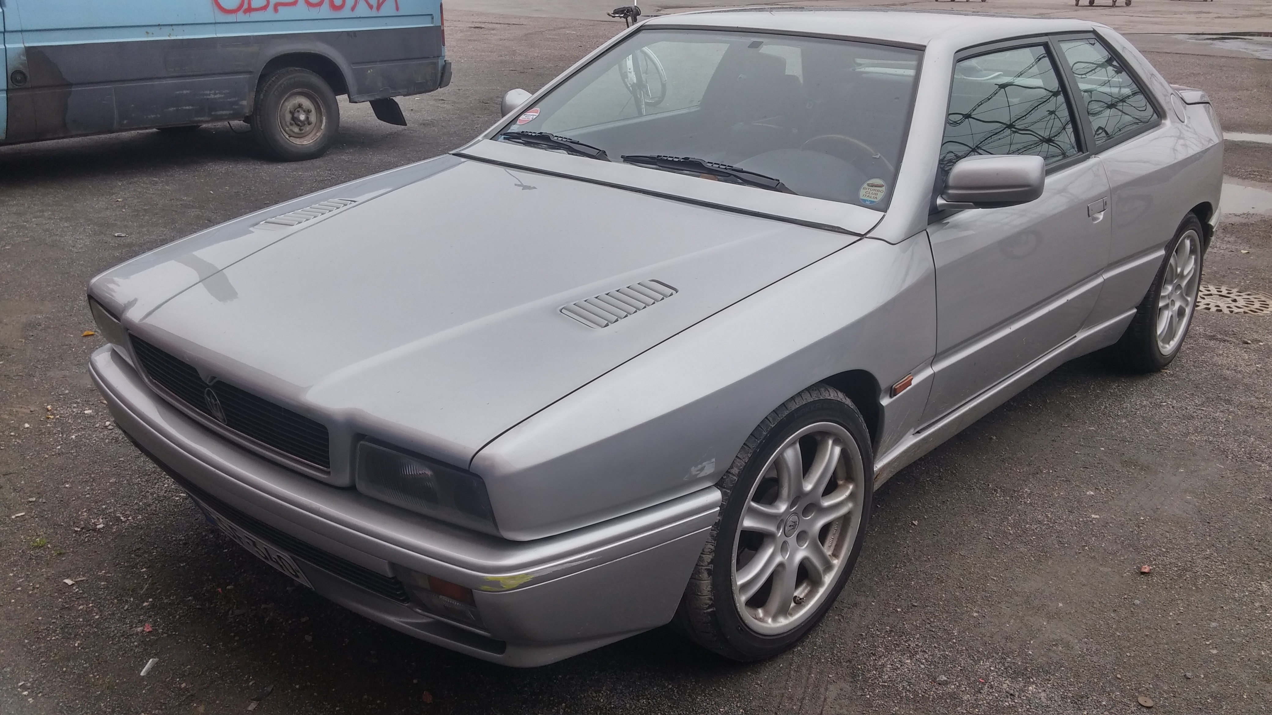 1995 Maserati Ghibli